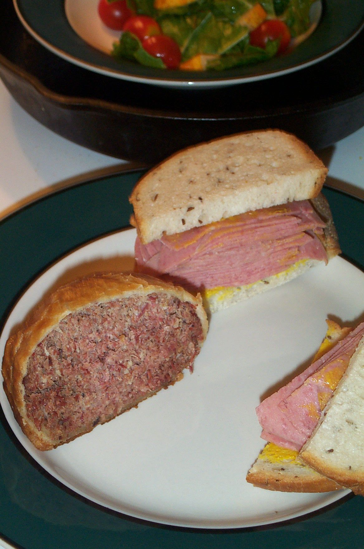 I prefer the potato knish. Sol's is the only restaurant in the city that has never disappointed me with a corned beef sanwich.